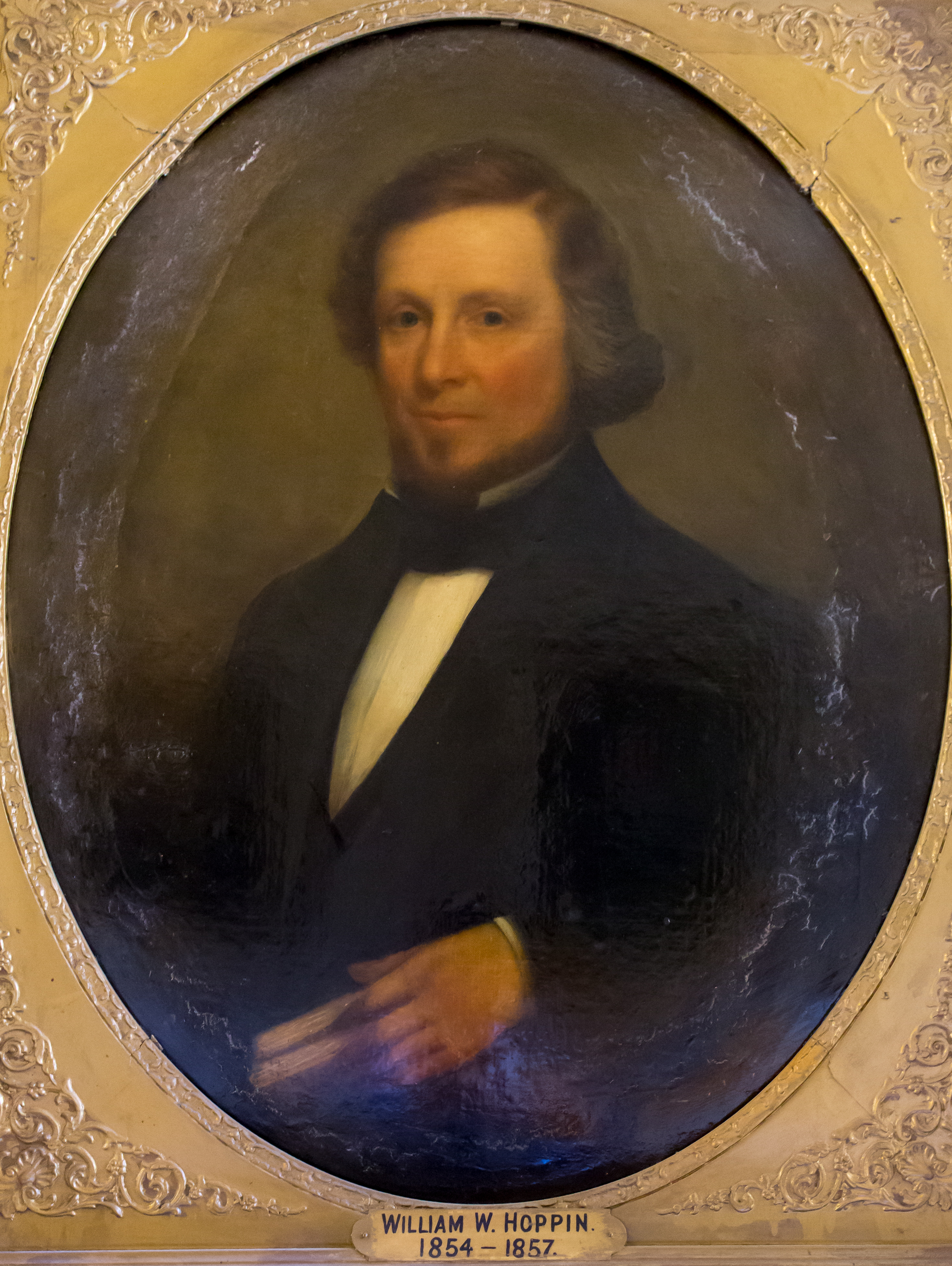 RI Governor William W Hoppin. Rhode Island State House collection.